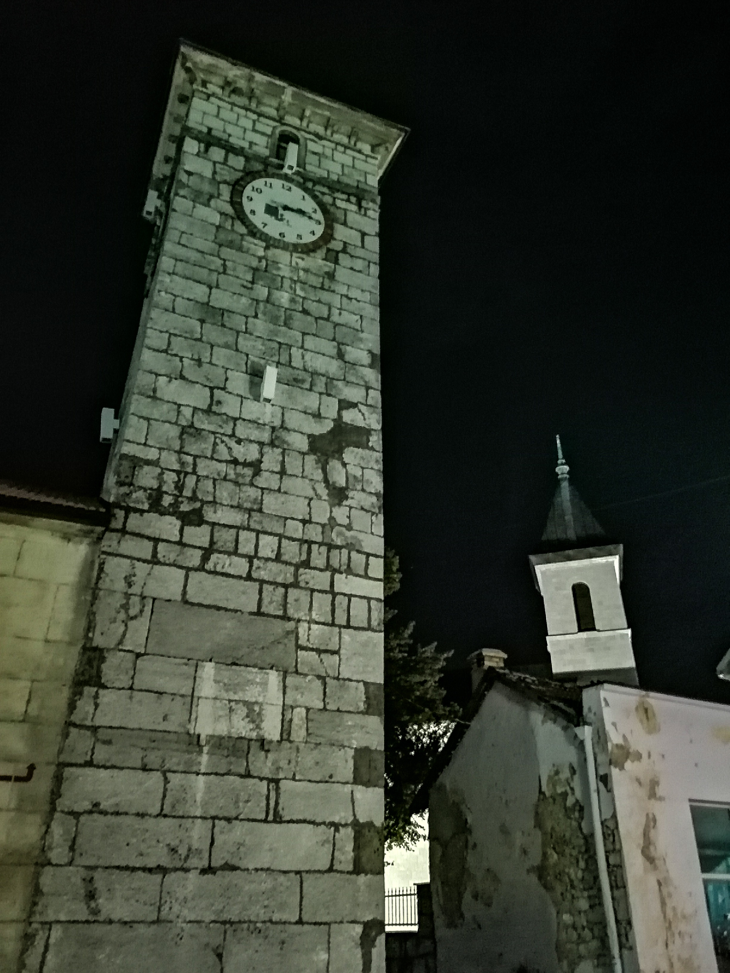 Srpski (latinica): Sahat kula, Nevesinje This image was uploaded as part of Trace of Soul 2019.